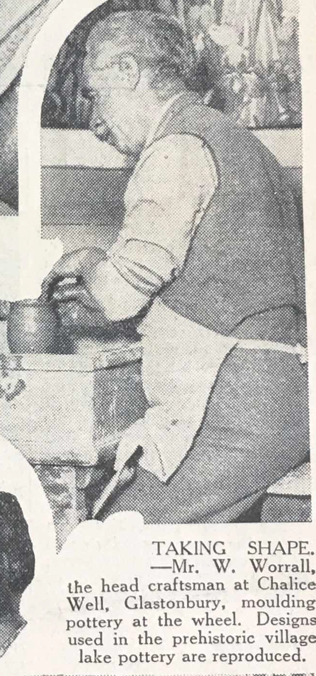 William Worrall working at his potters wheel in the Chalice Well pottery, 1931. Photo published in Evening World newspaper, 21 April 1931